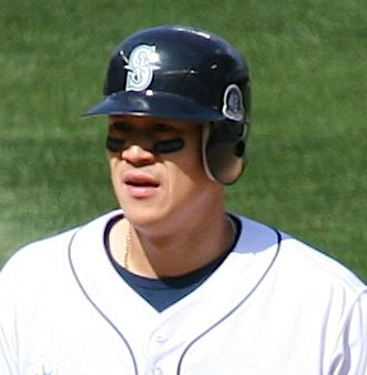 Kenji Johjima from Seattle Mariners, wearing Eye blacks.